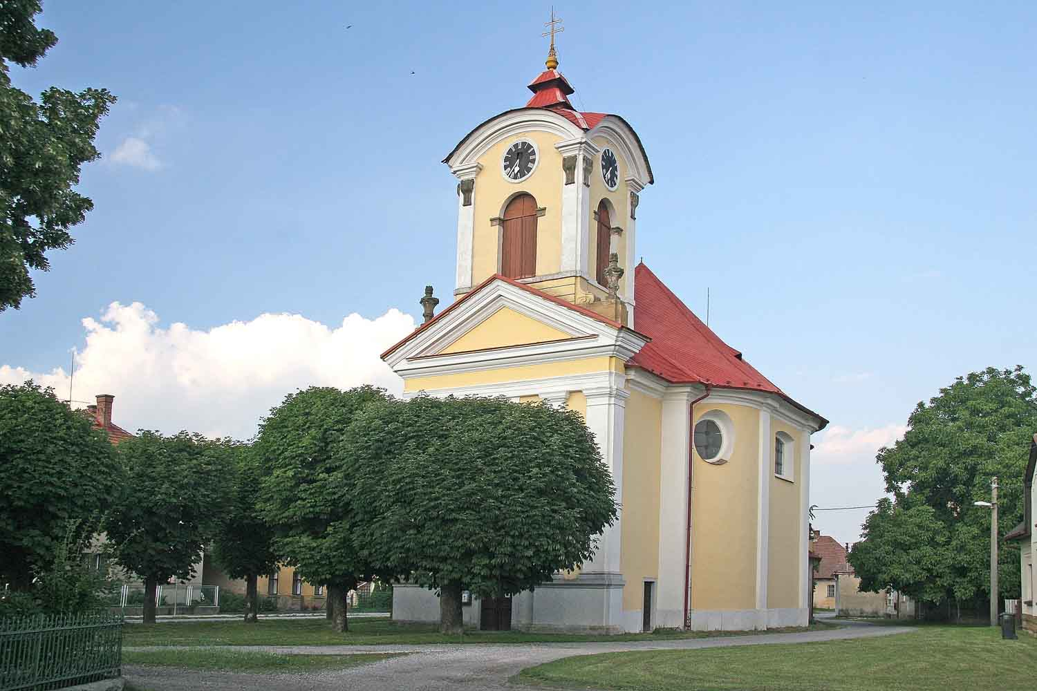 Baroque church of St Denis (1782) in Chomutice, Jičín District, Hradec Králové Region, Czech Republic autor: Prazak date: 17. 7. 2006